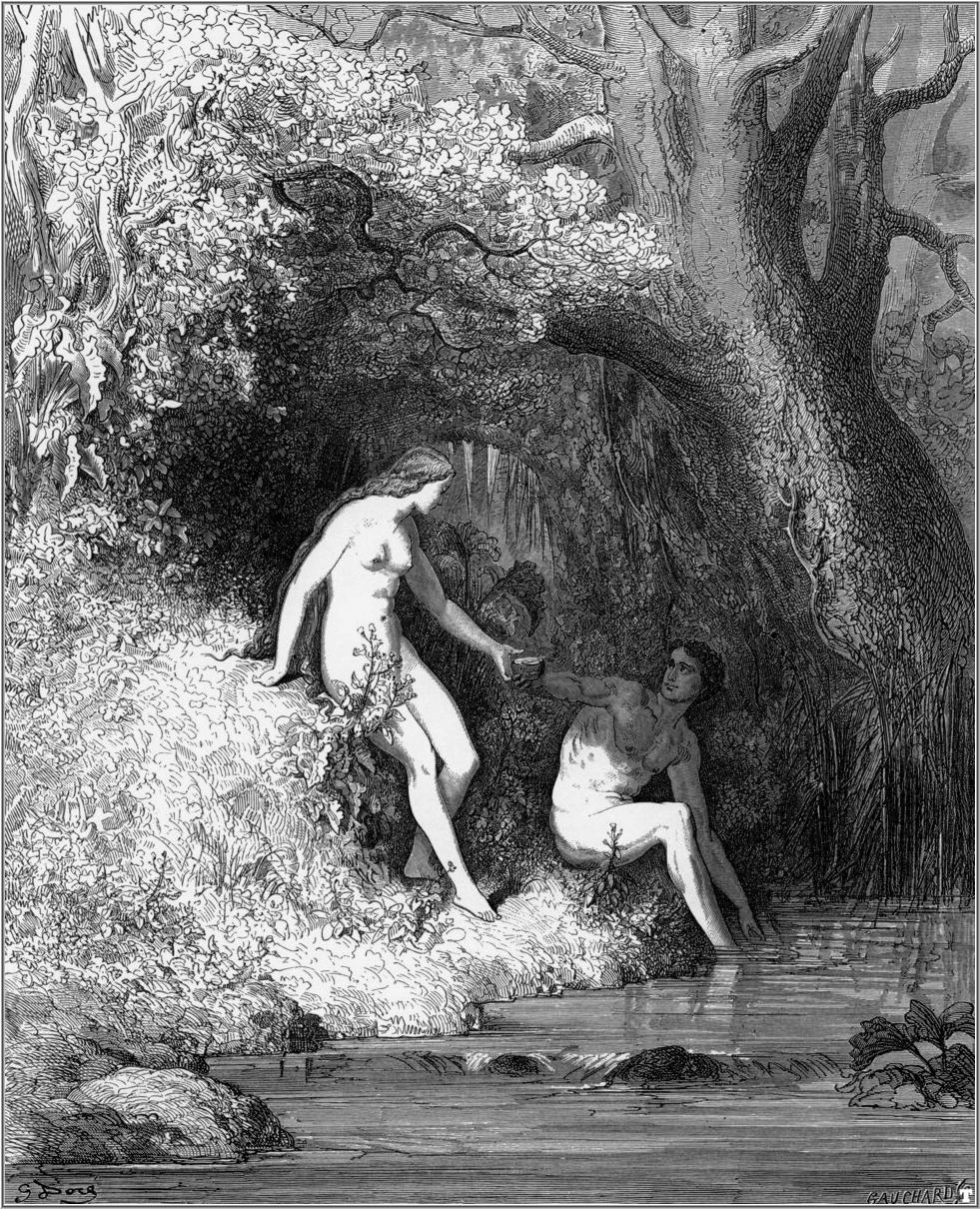 Illustration for John Milton’s “Paradise Lost“